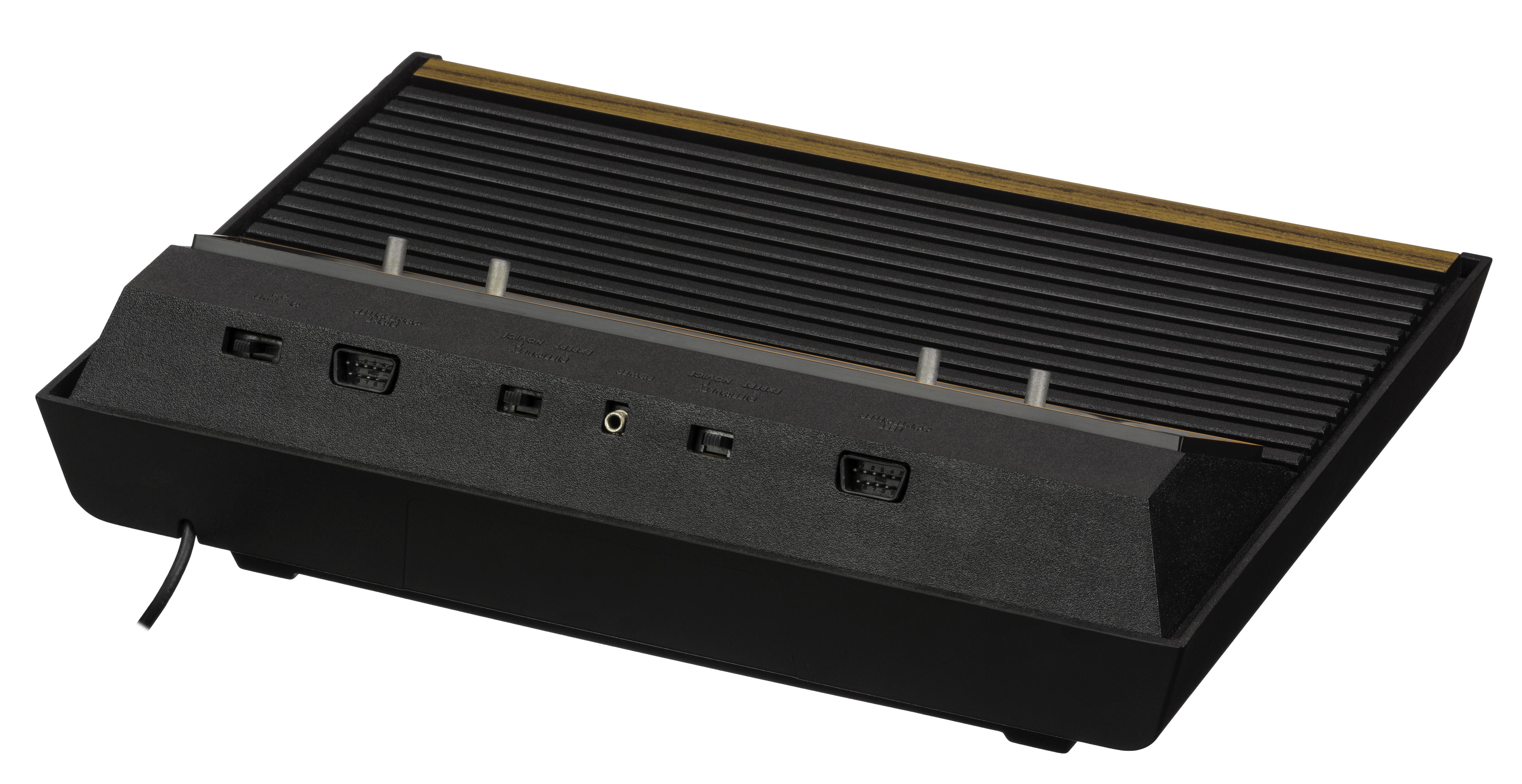 The Atari 2600, a video game console released by Atari in 1977. Originally called the Atari Video Computer System, the system was the most popular gaming console of the late '70s and early '80s. This model is the "Woody" unit with woodgrain and 4 front switches that is the most common and iconic of the various 2600 models.